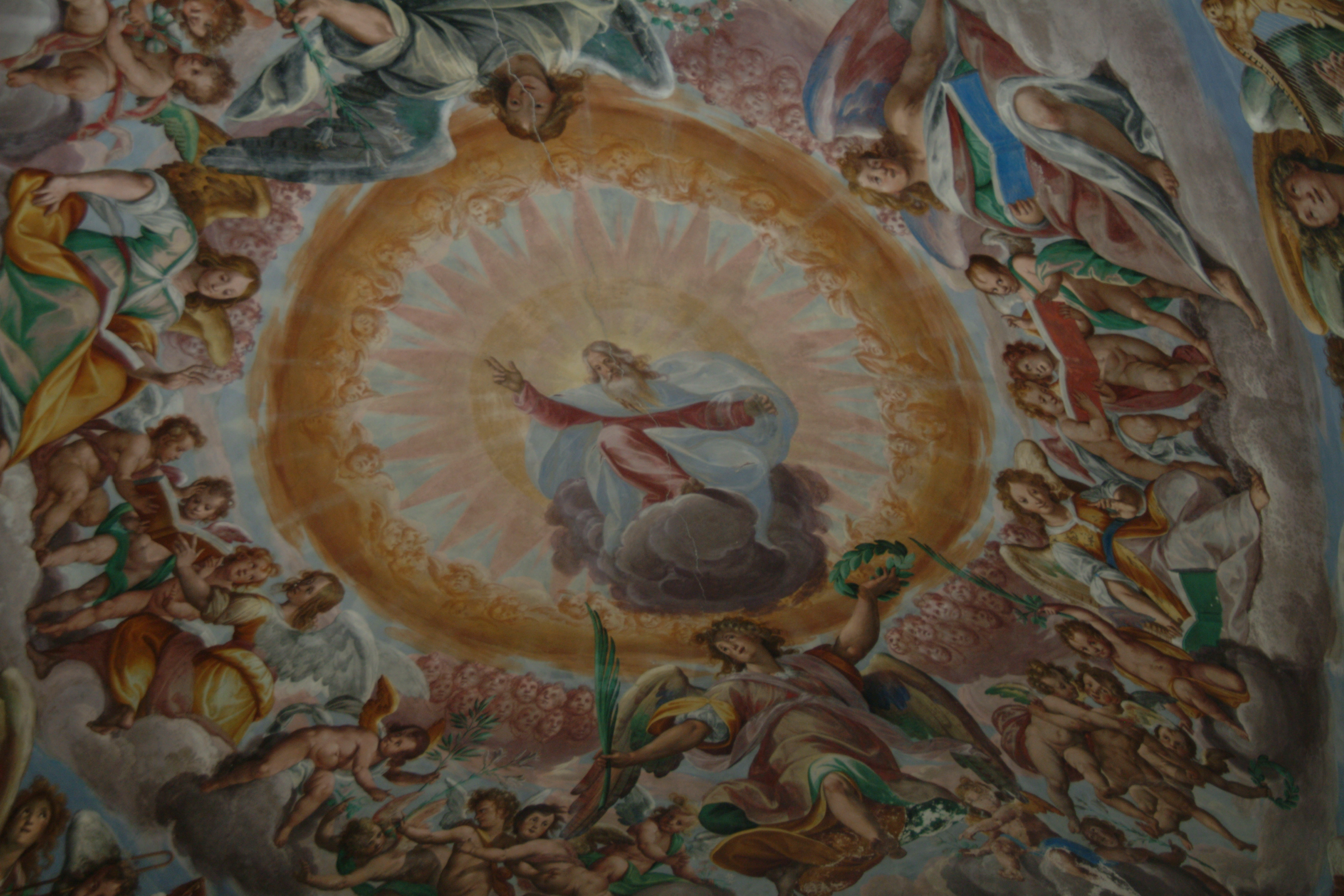 Fresco by Fiammenghino in the church of SS. Gusmeo and Matteo in Gravedona (Como)